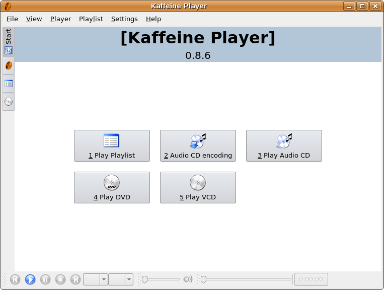 Screenshot of Kaffeine, a media player, on ubuntu